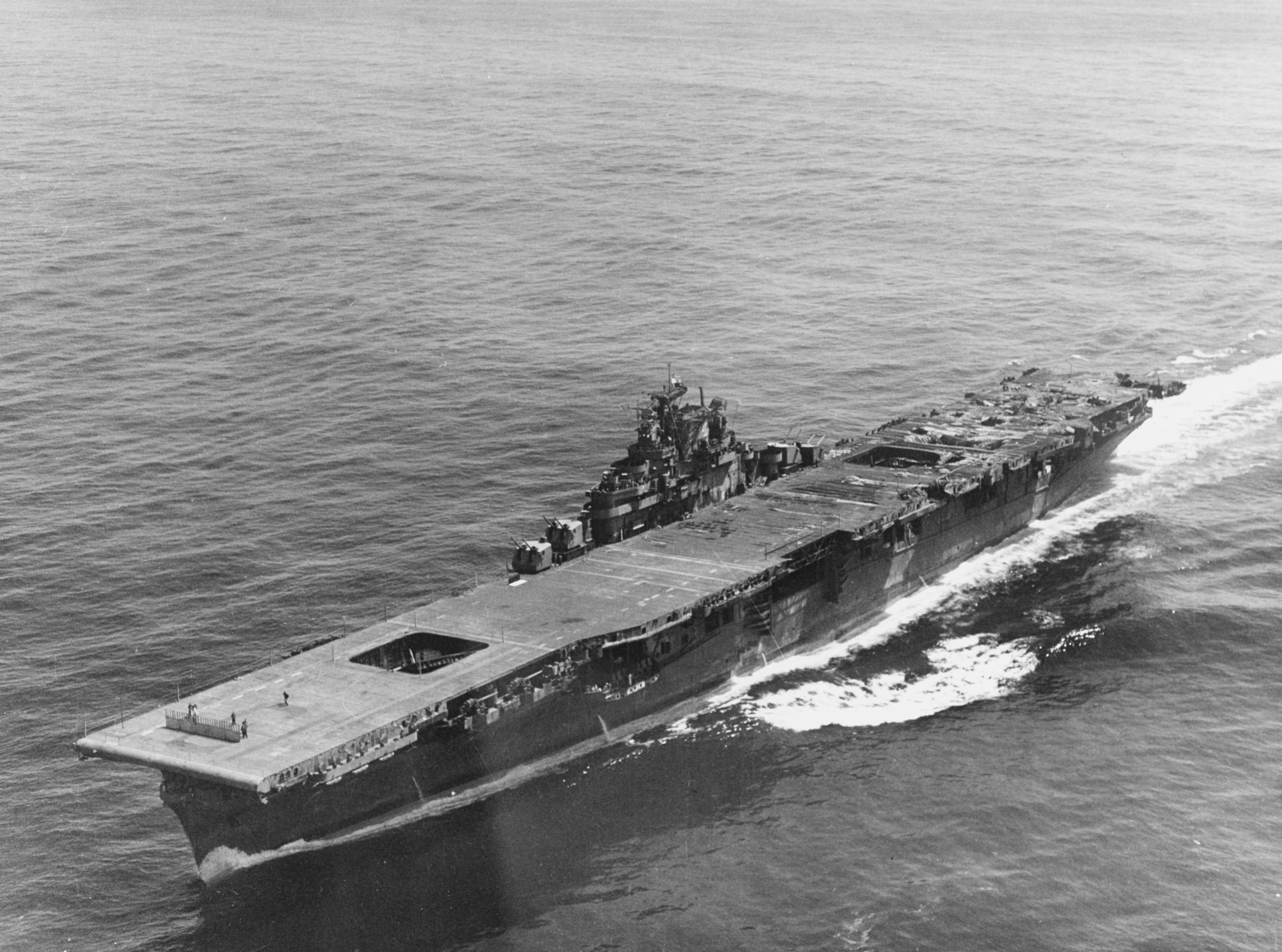 The U.S. Navy aircraft carrier USS Franklin (CV-13) approaches New York City (USA), while en route to the New York Naval Shipyard for repairs, 26 April 1945. Note the extensive damage to her aft flight deck, received when she was hit by a Japanese air attack off the coast of Japan on 19 March 1945.